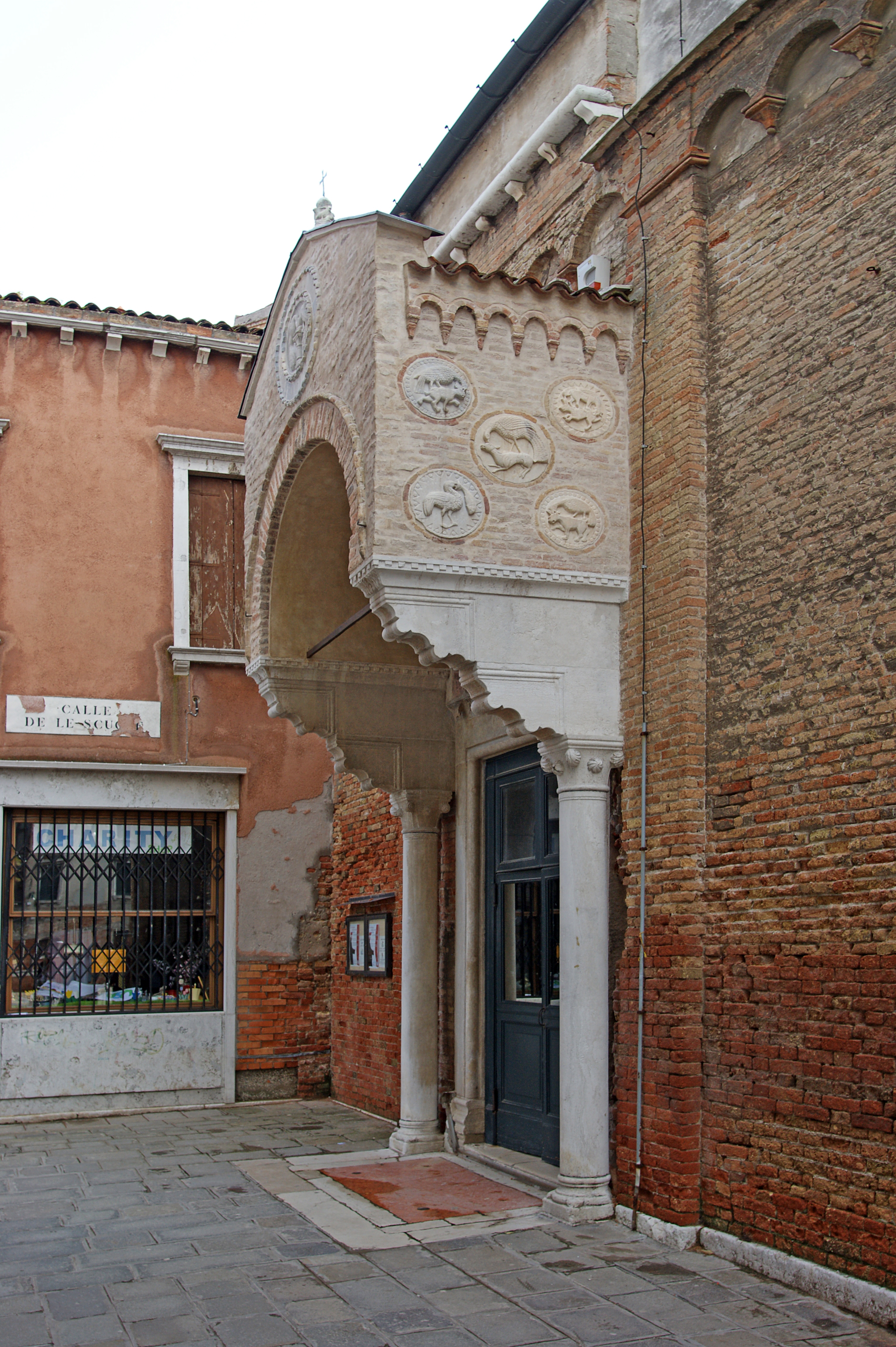 Church of Santa Maria dei Carmini,Venice; side door to the calle delle scuola restored in 2009. It dates from the fourteenth century and is decorated with palm trees, hooks and tiles Venetian Byzantine style.